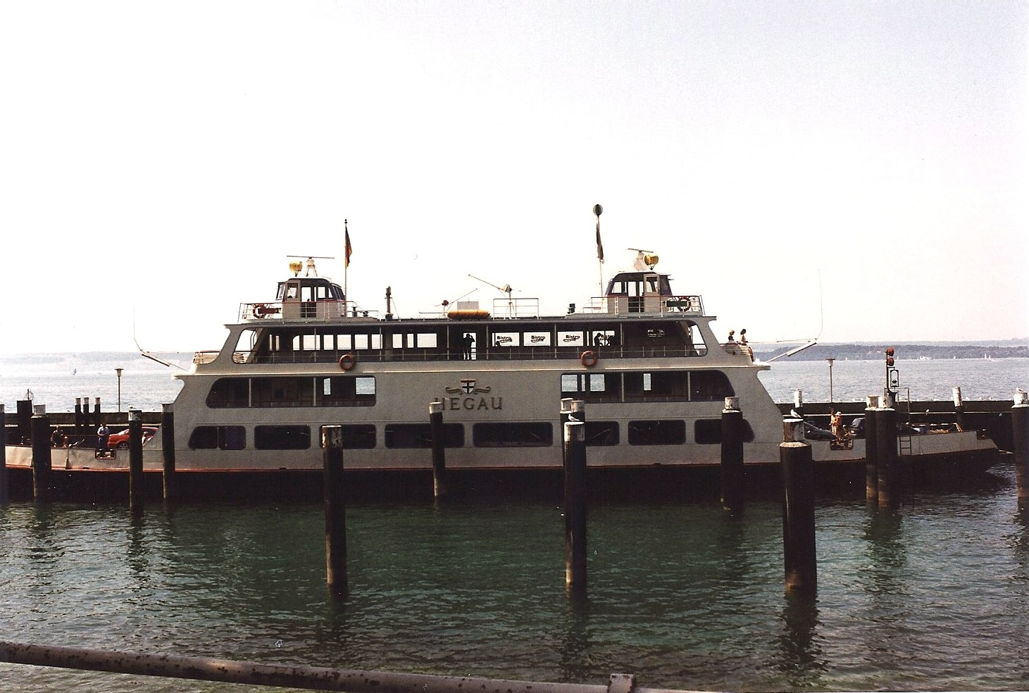 The car ferry Hegau, here in Meersburg harbour, was running on Lake Constance from 1957 to 2004.